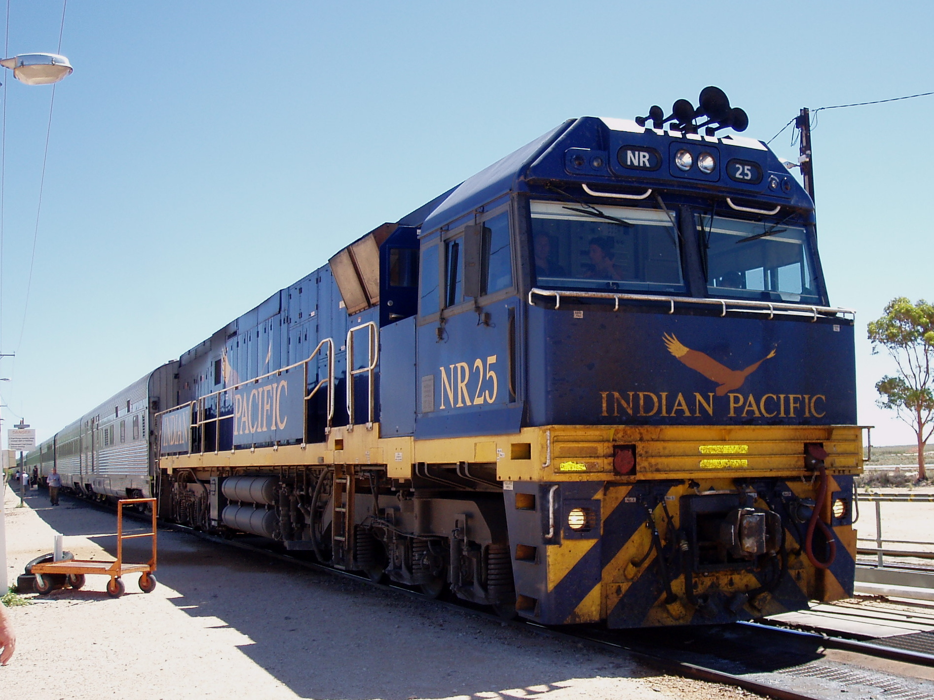 Cook is a railway station and crossing loop on the standard gauge Trans-Australian Railway from Adelaide to Perth, with no inhabited places around. The town was created in 1917 when the railway was built and is named after former Prime Minister Joseph Cook. The town depended on the Tea and Sugar Train for the delivery of supplies, and is on the longest stretch of straight railway in the world, at 479 km which stretches from Ooldea to beyond Loongana. When the town was active, water was pumped from an underground Artesian aquifer but now, all water is carried in by train. Attempts have been made to introduce trees and other vegetation, but these have not been successful. Today, it is said to have a resident population of four, and is essentially a ghost town. The town was effectively closed in 1997 when the railways were privatised and the new owners did not need a support town there, although the diesel refuelling facilities remain, and there is overnight accommodation for train drivers. Cook is the only scheduled stop on the Nullarbor Plain for the Indian Pacific passenger train across Australia and has little other than curiosity value for the passengers. The bush hospital is closed, and the shop is only opened while the Indian Pacific is in town. It has a few houses and fuel tanks for the locomotives. The crossing loop can cross trains up to 1800m long.